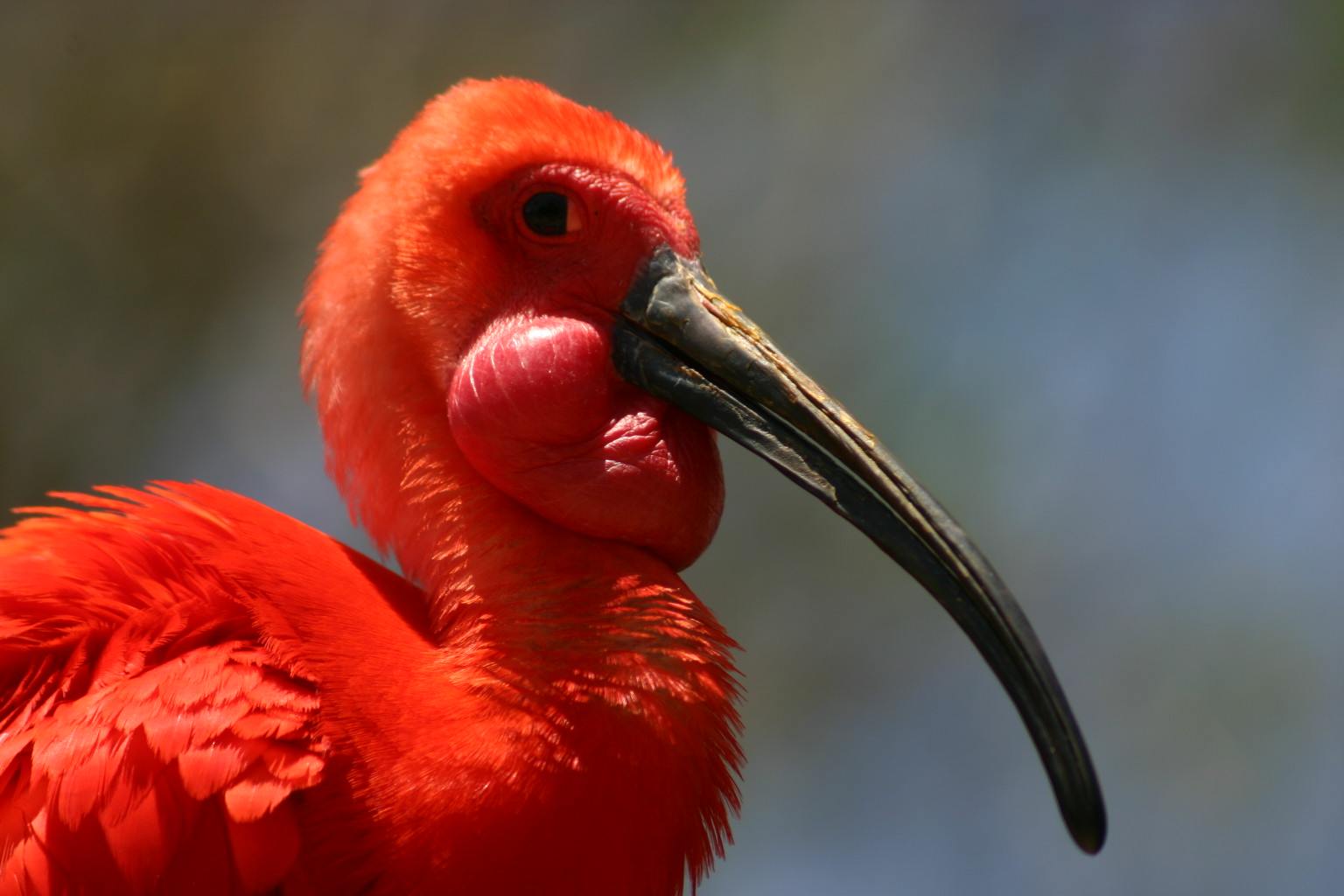 The head of an adult male Scarlet Ibis